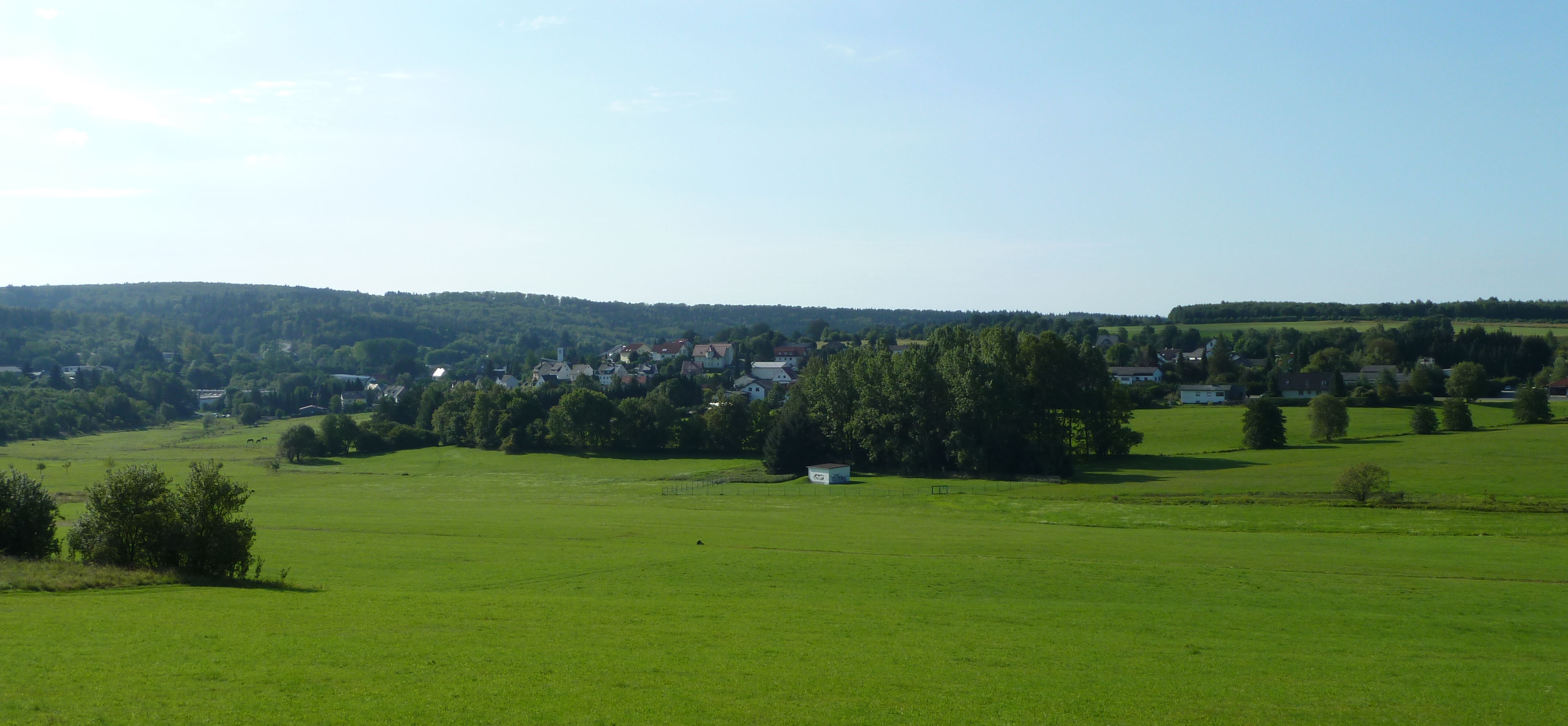 Eschenburg-Hirzenhain-Bahnhof, Germany